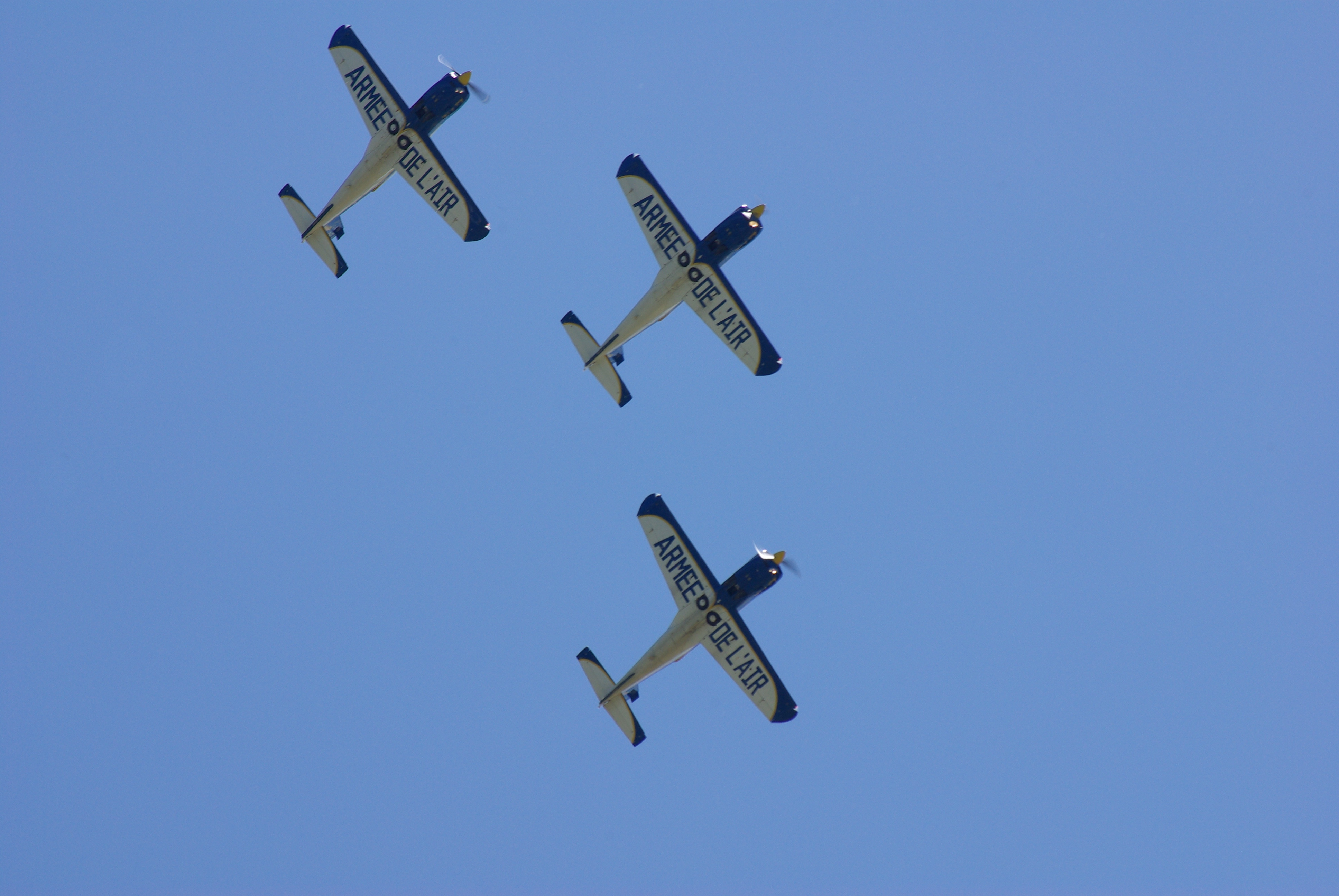 The three TB-30 Epsilon of the french aerobatic team Cartouche Doré.